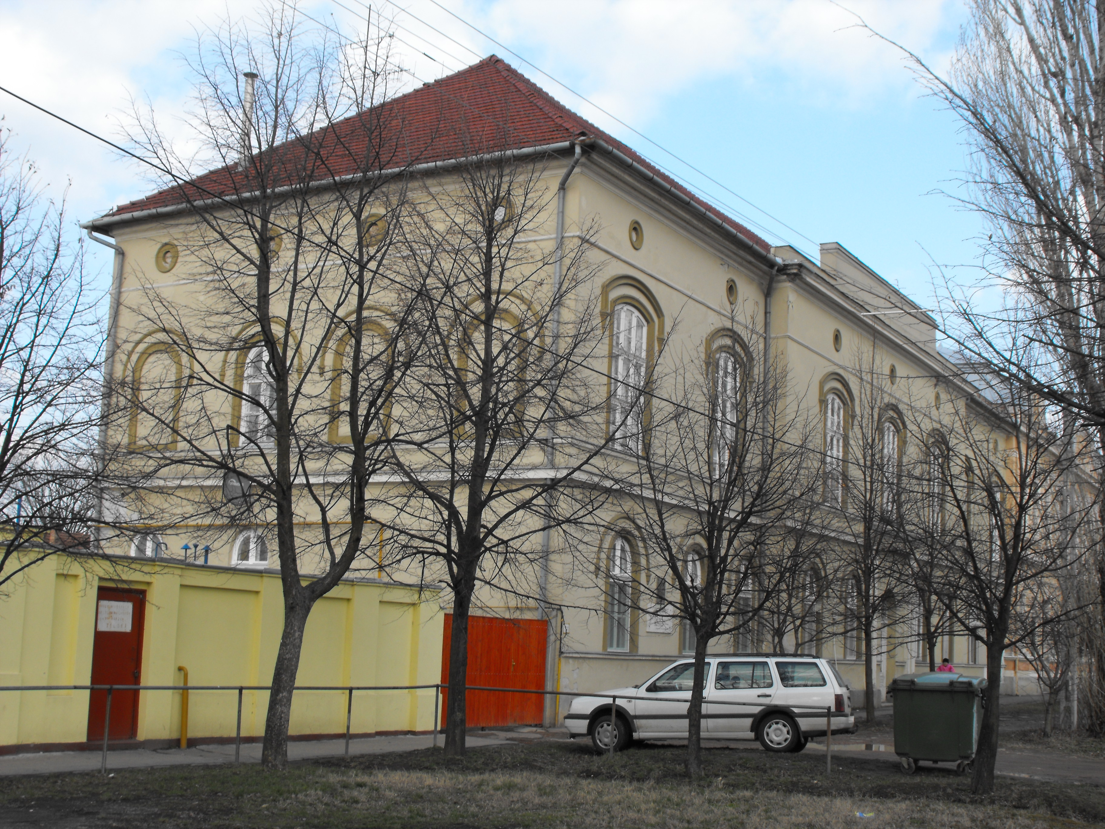 The older wing of the building of the former boarding school in Makó, Hungary; nowadays its rooms are functioning as apartments.